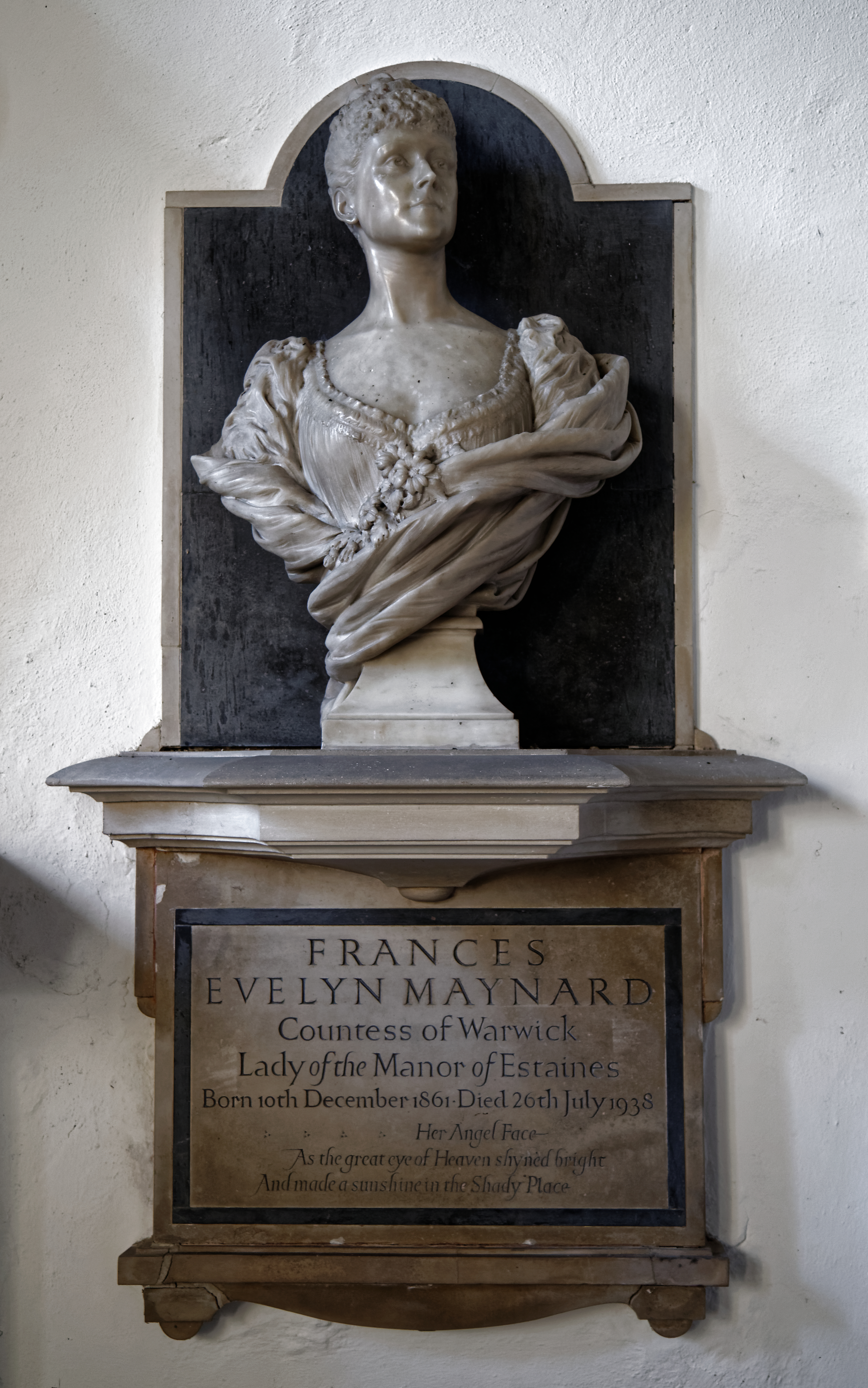 Wall monument bust to Frances Evelyn Maynard, "Daisy Greville", Countess of Warwick, (1861-1938), in the Bouchier-Maynard South Chapel of the Church of St Mary the Virgin at Little Easton, Essex, England.Software: RAW file lens-corrected, optimized and converted to JPEG with DxO OpticsPro 10 Elite, and likely further optimized and/or cropped and/or spun with Adobe Photoshop CS2.